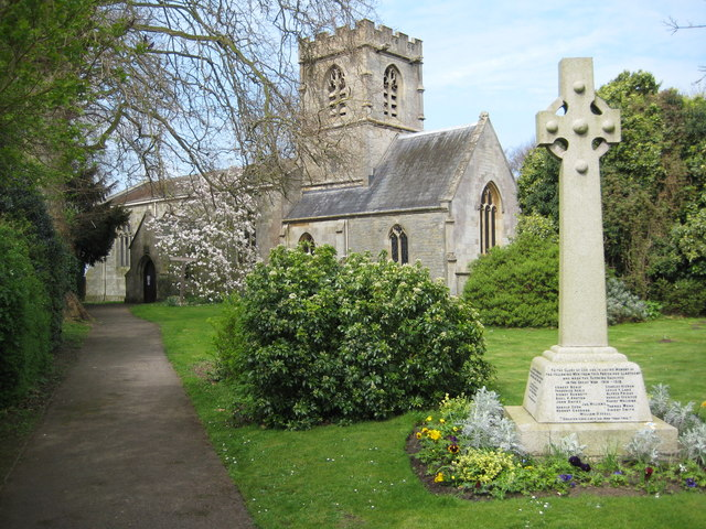 St Swithun's parish church and war memorial, Hempsted, Gloucester, seen from the southeast